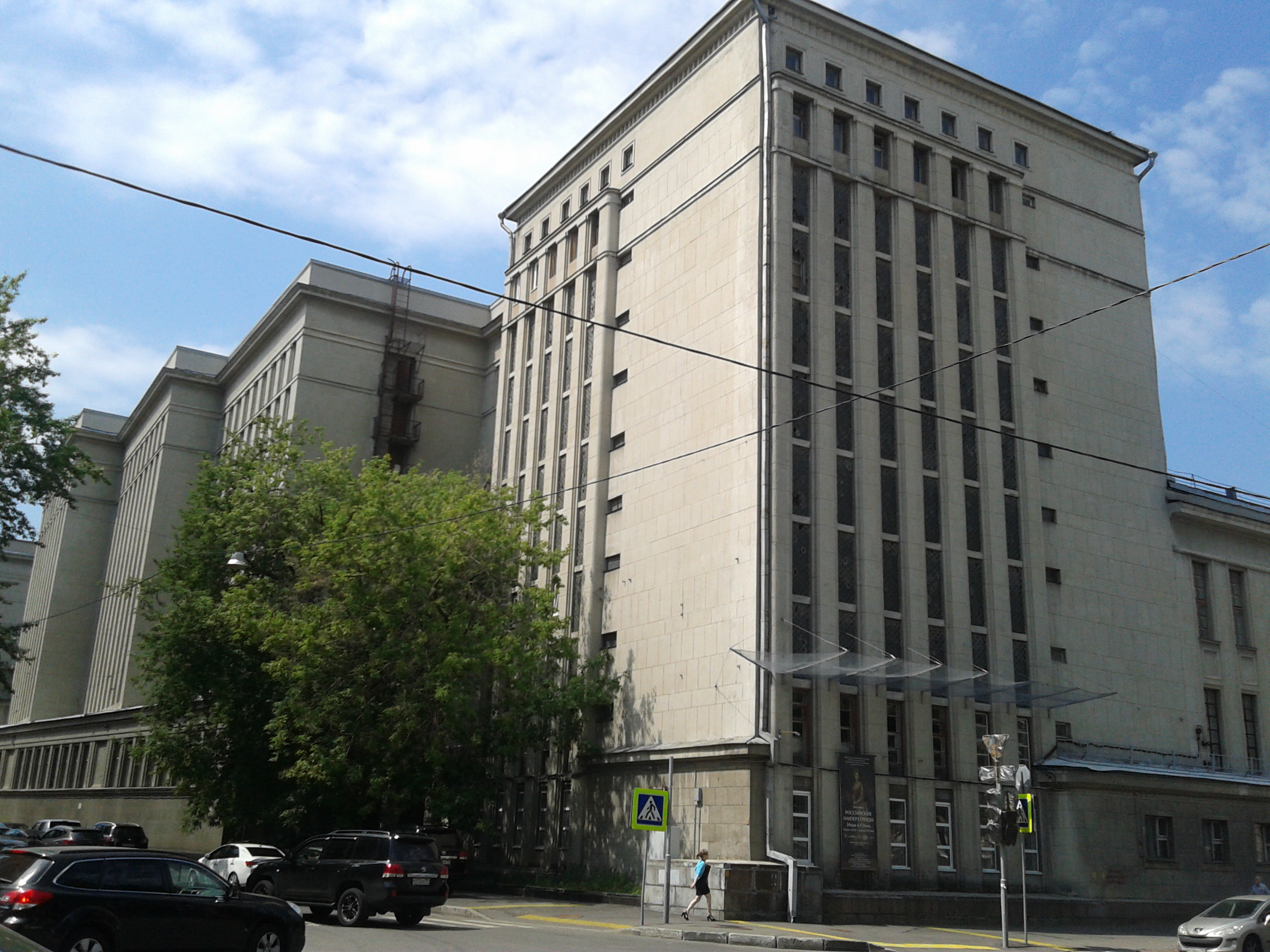 One of the buildings of the "archival town" in Moscow (Bolshaya Pirogovskaya ul., 17), blocks of the State Archive of the Russian Federation and Russian State Archive of Economy